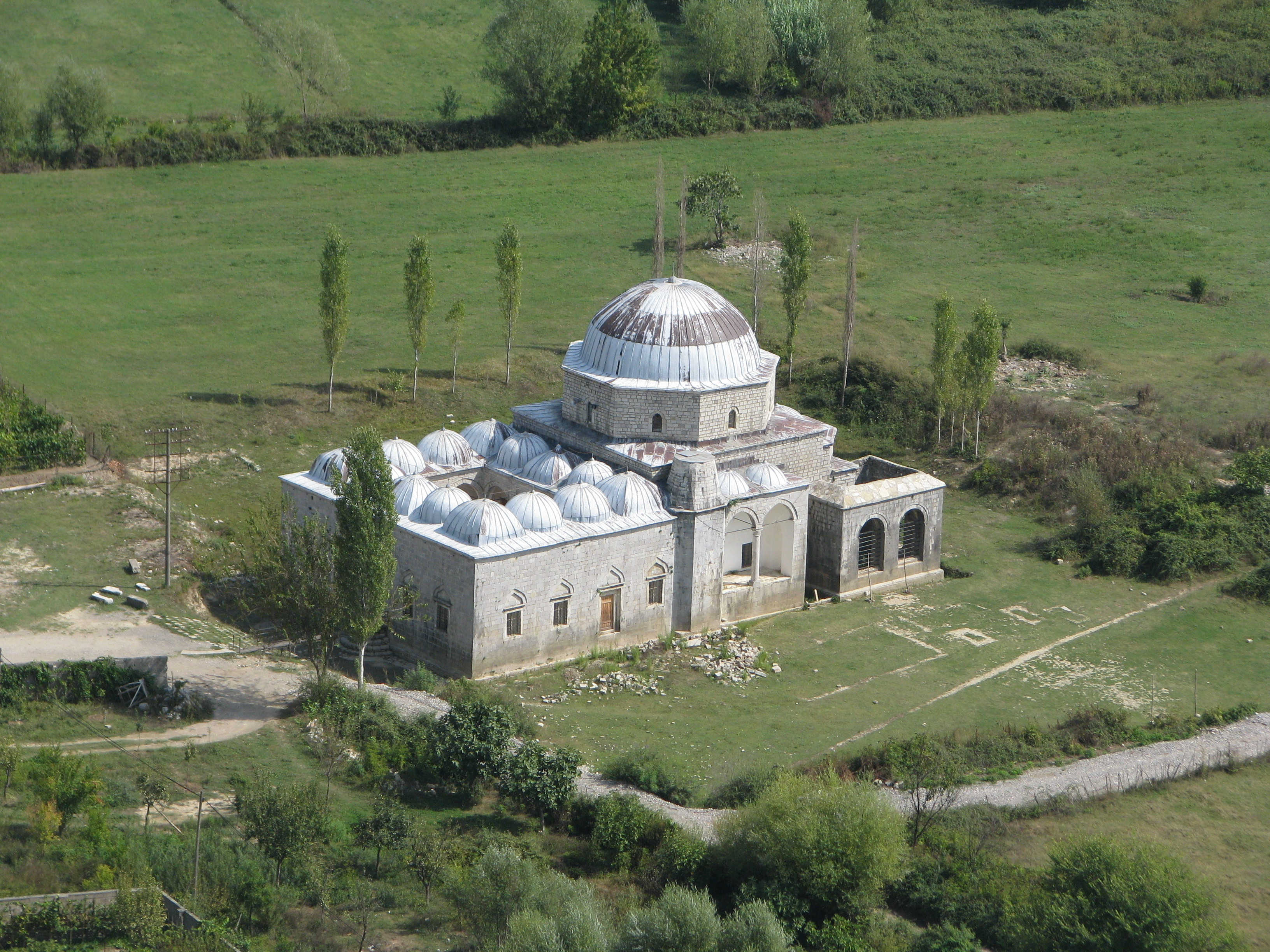 As seen from Rozafa Castle